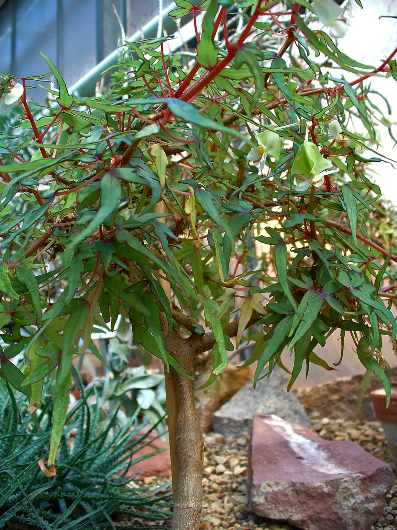 Begonia dregei, Begoniaceae, Grape-leaf Begonia, Maple-leaf Begonia, habitus; Botanical Garden KIT, Karlsruhe, Germany.